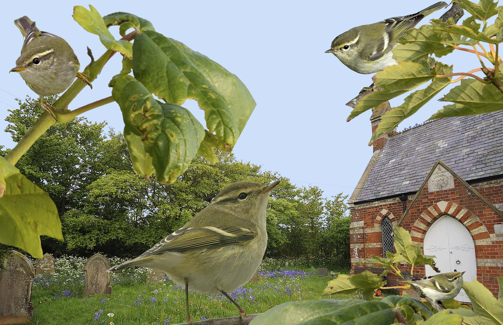 Yellow-browed Warbler from the Crossley ID Guide Britain and Ireland